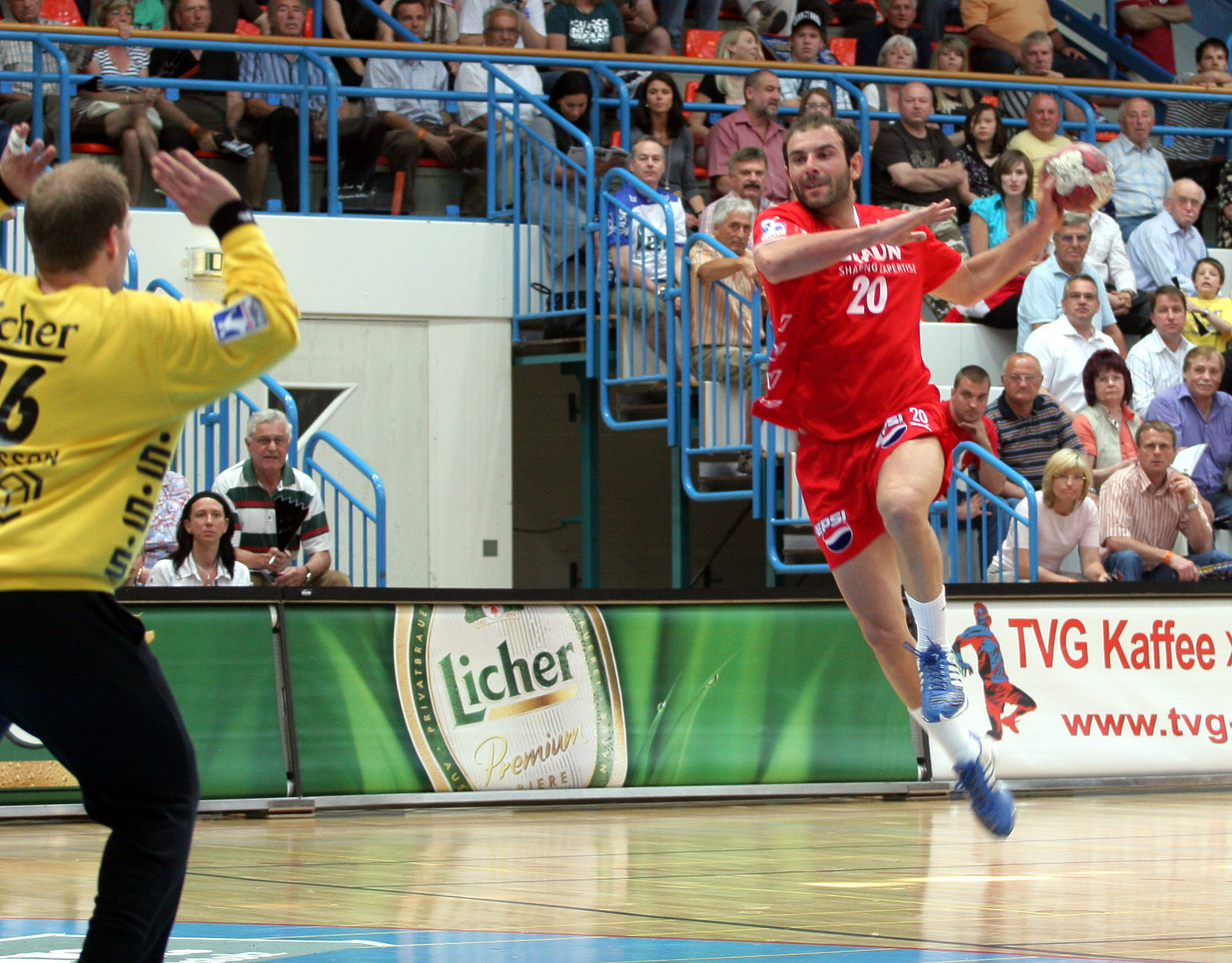 Savas Karipidis, handball player from Greece, playing for MT Melsungen, on May 23rd 2009 in Aschaffenburg (Germany) during the game TV Großwallstadt vers. MT Melsungen.